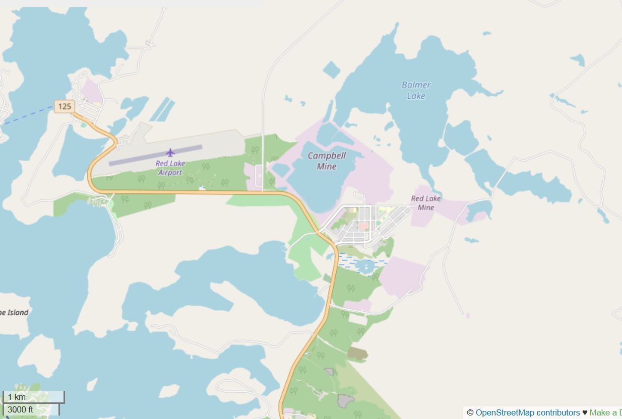 Open Street Map showing the Red Lake Mine, in relation to the Red Lake airport, Balmer Lake and the Campbell Mine.